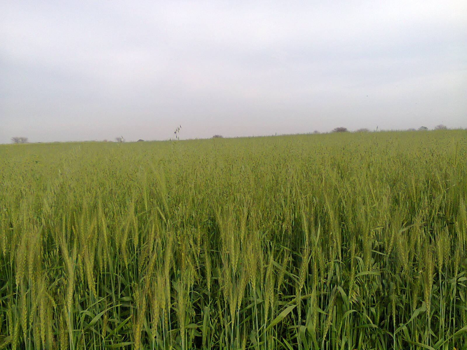 Agriculture